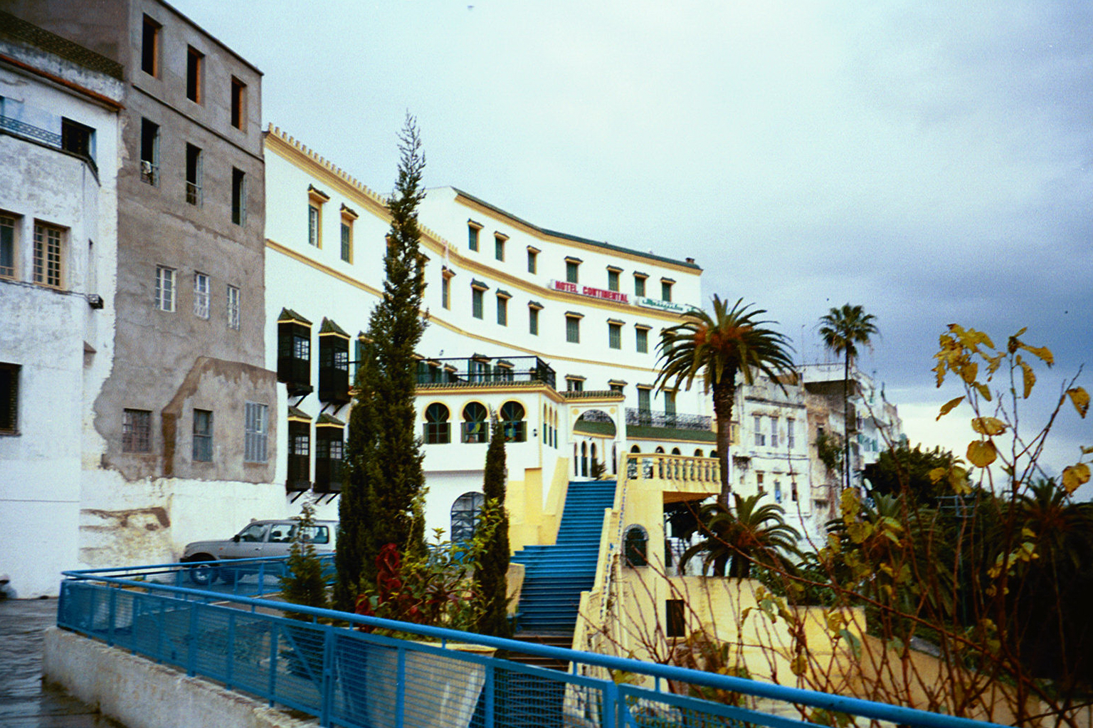 Hotel Continental Tangier, Morocco